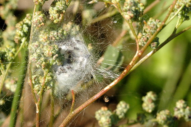 Phylloneta sisyphia web with retreat, from Commanster, Belgian High Ardennes .